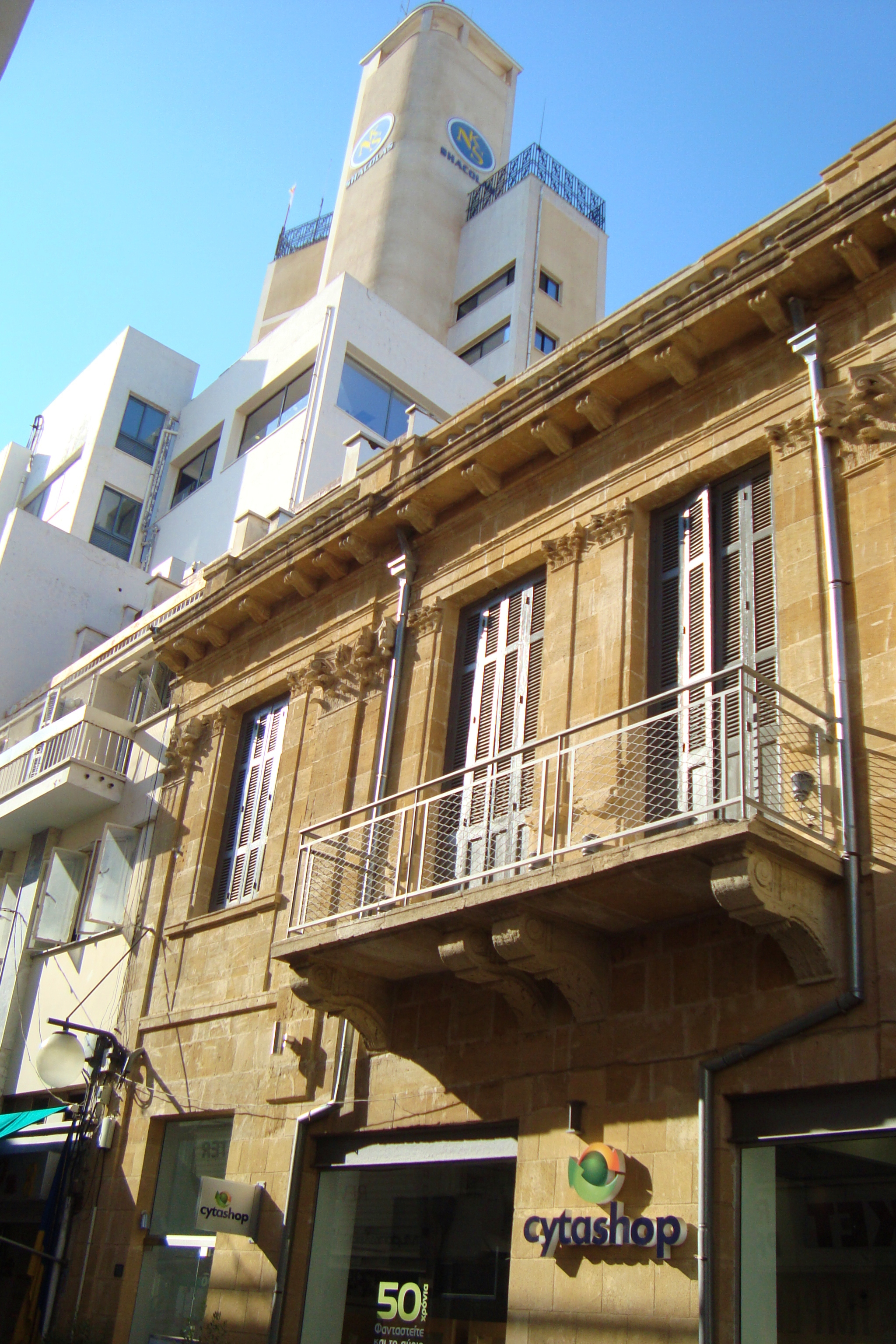 Cytashop in an old aristocrate mansion in Ledra Street Republic of Cyprus